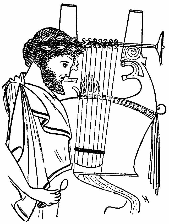 Image from a Greek vase showing a man playing a phorminx or cithara.